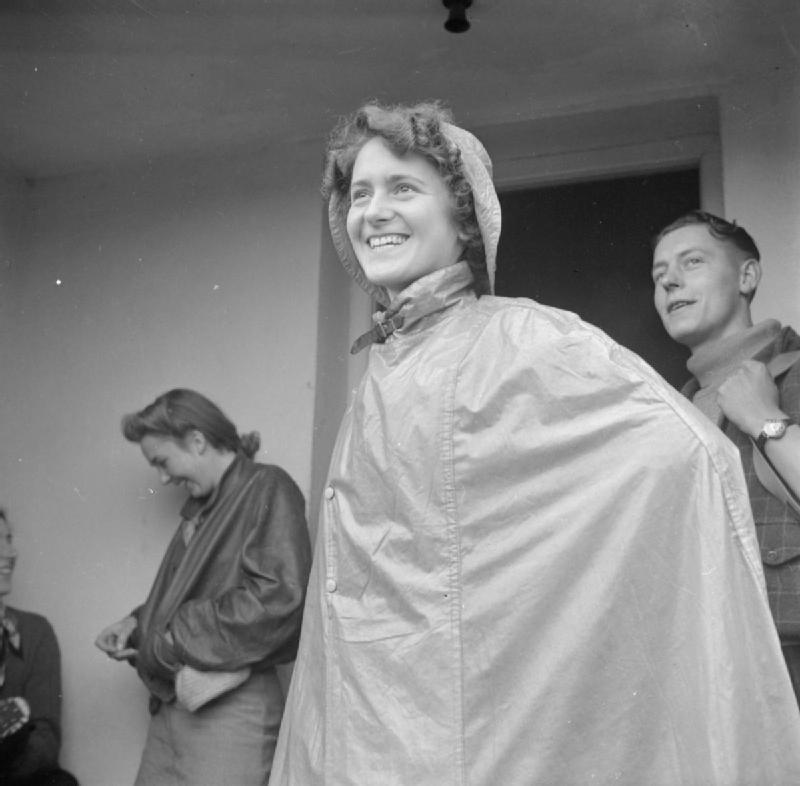 Young Hikers in Yorkshire- the work of the Youth Hostel Association in Wartime, Malham, Yorkshire, England, UK, 1944 At the Youth Hostel in Malham, Nell Petrie (from Jarrow) is ready to begin a day's walking, complete with rain cape and sou-wester.